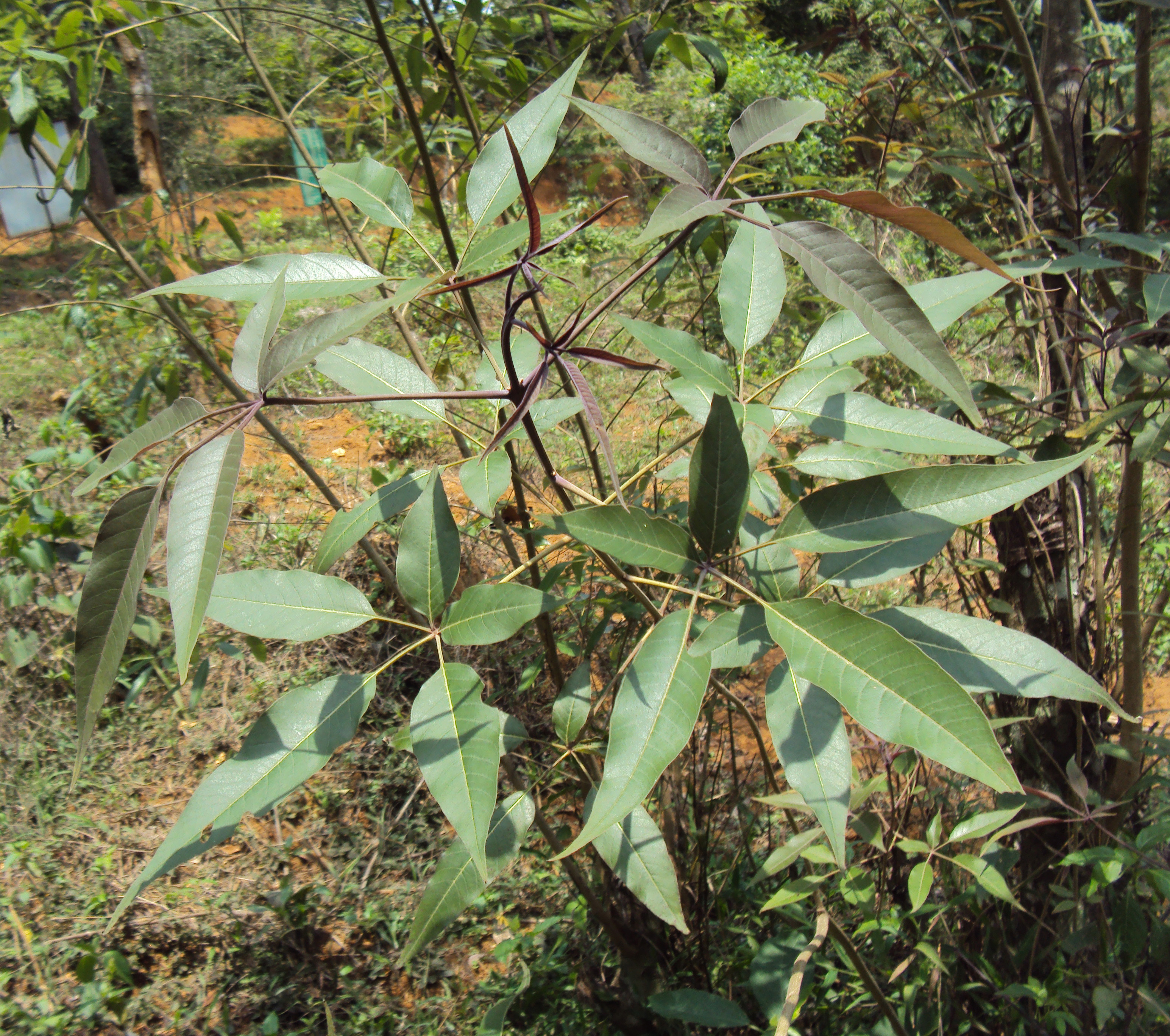 Vitex negundo